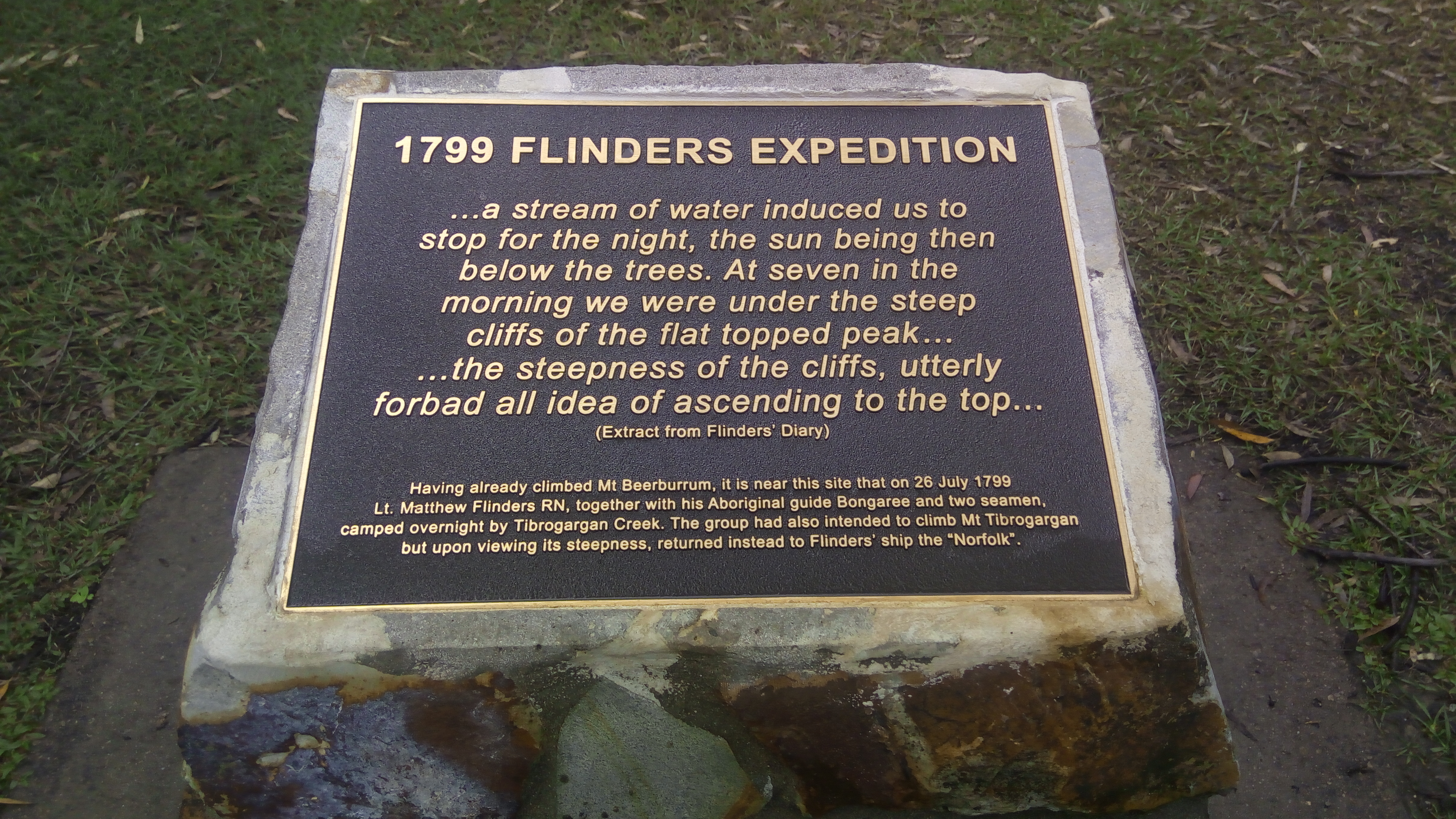 Memorial plaque at roadside stop on Steve Irwin Highway, Beerburrum